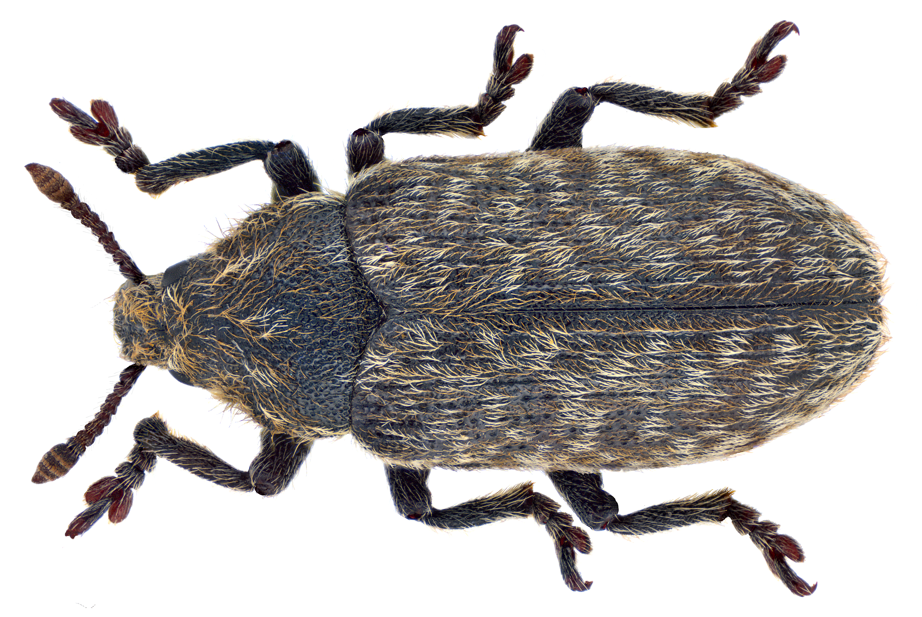 Family: Curculionidae Size: 6,3 mm (4,0-6,5 mm) Origin: from western Asia to the Mediterranean, South and Central Europe Ecology: development in the flower heads from thistles Location: Germany, Württemberg, Hoppingen leg. H.J.Mager, 4.VI.1970; det. R.Frieser Photo: U.Schmidt. 2013